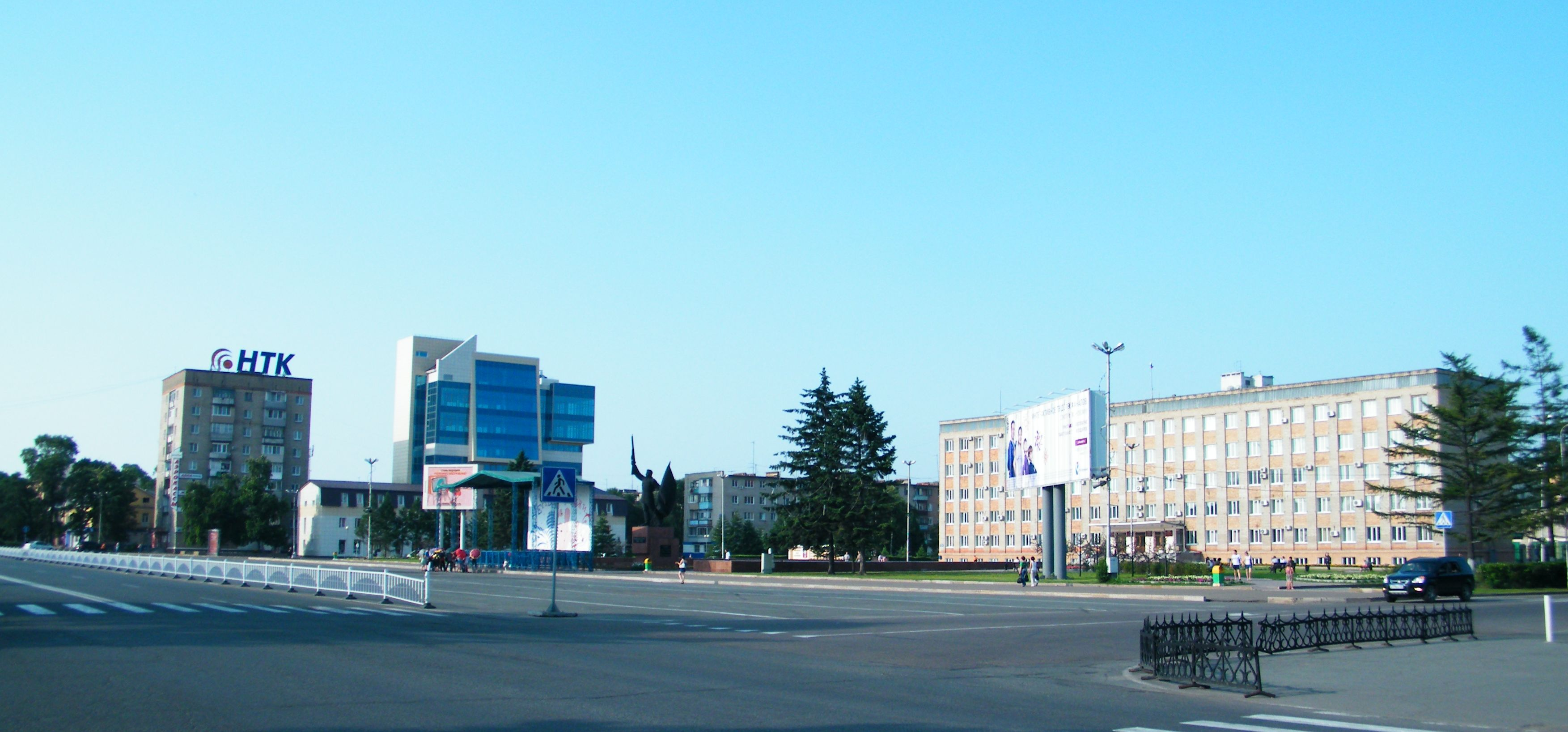 Уссурийск, ул. Некрасова